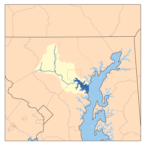 This is a map of the Patapsco River Watershed.